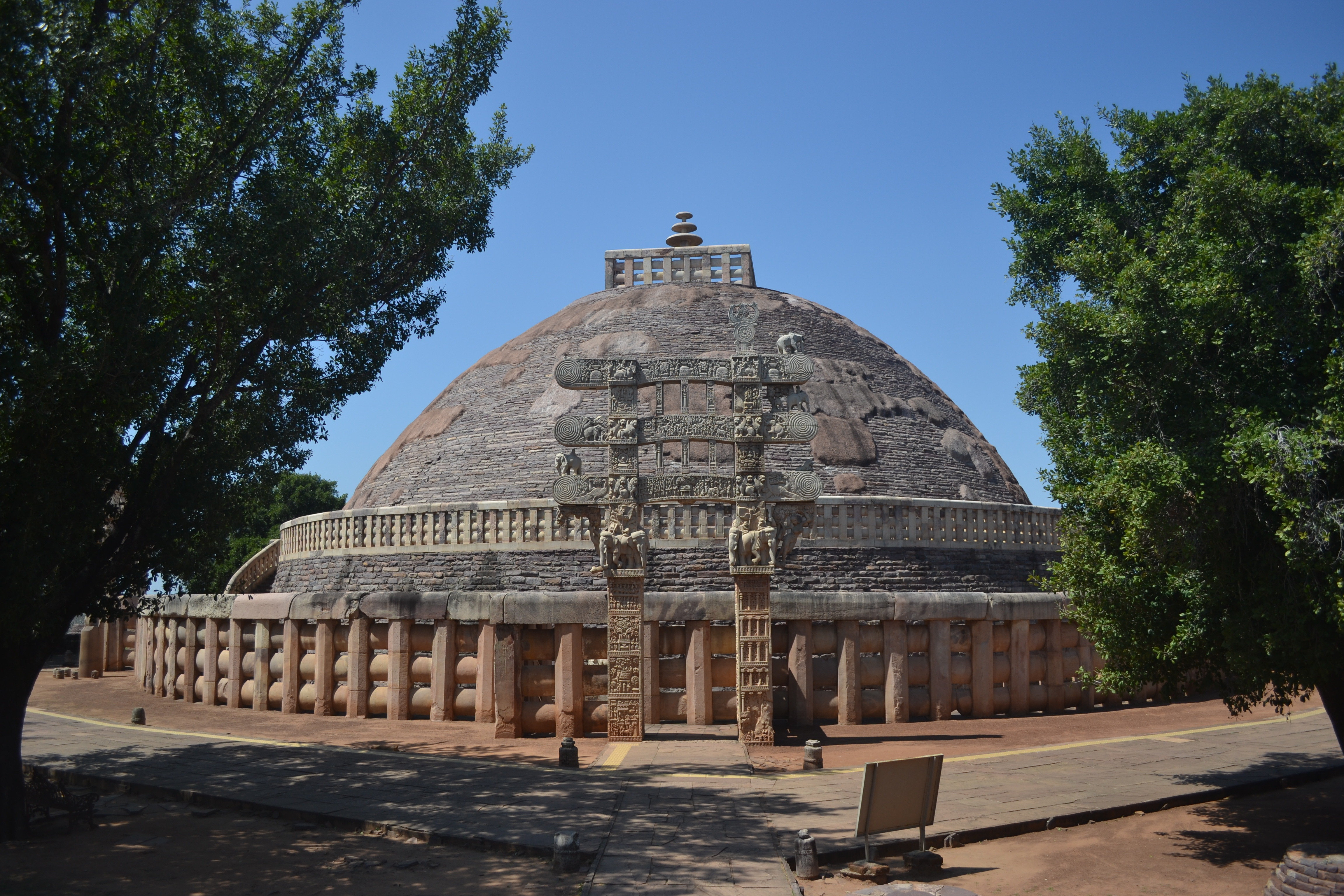 Buddhist monuments